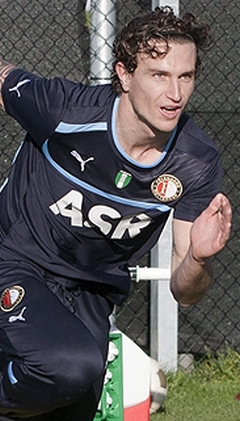 Daryl Janmaat training with Feyenoord.